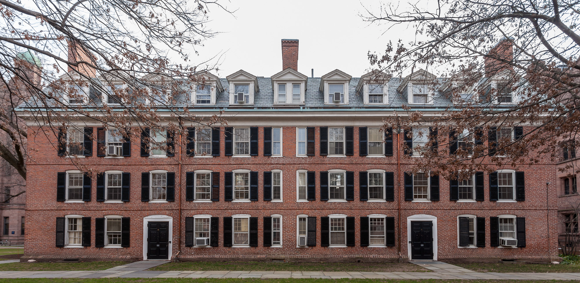 West elevation of Connecticut Hall, Yale University